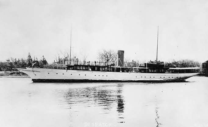 United States Navy tender USS Despatch (PY-8). She previously had been USS Despatch (SP-68).